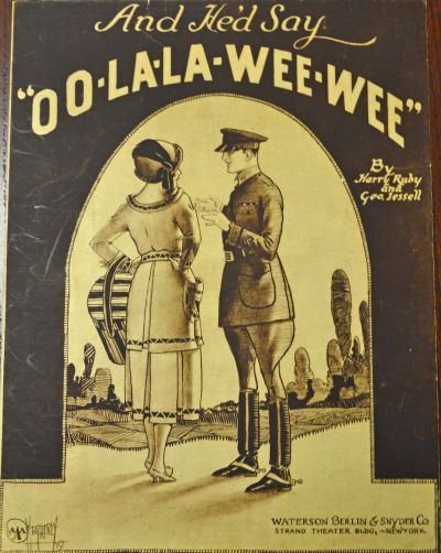 2nd edition sheet music cover